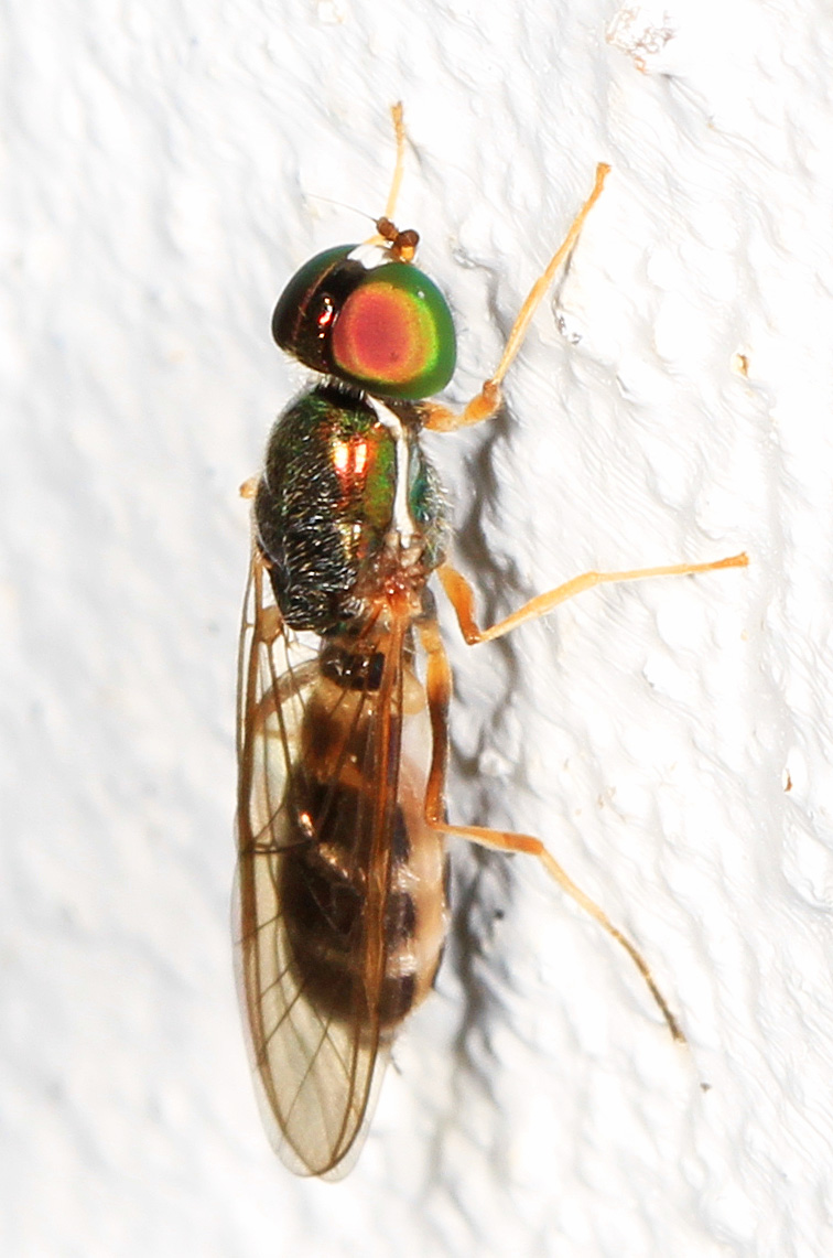 Soldier Fly - Sargus fasciatus, Woodbridge, Virginia